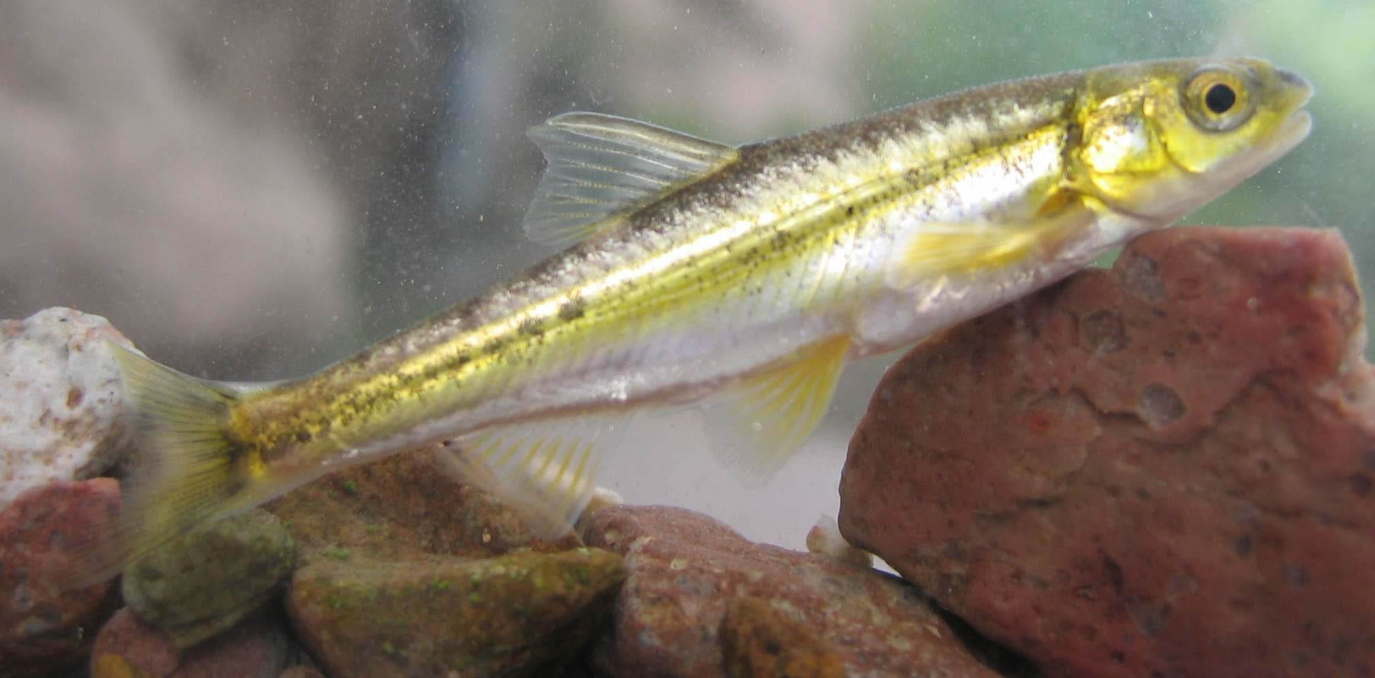 Spikedace.